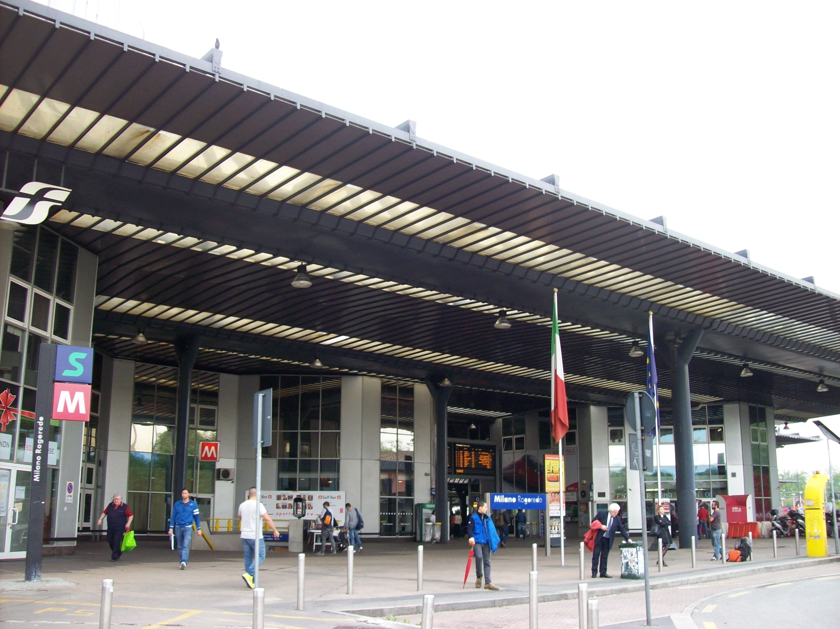 The front of the Milano Rogoredo railway station in Milan, Italy